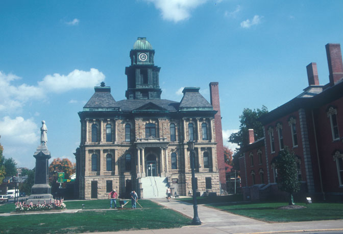 Front of the Holmes County Courthouse, located on Courthouse Square in Millersburg, Ohio, United States. Built in 1880, it is listed with the county jail on the National Register of Historic Places. Notice the statue of Ulysses S. Grant on the left side of the picture.